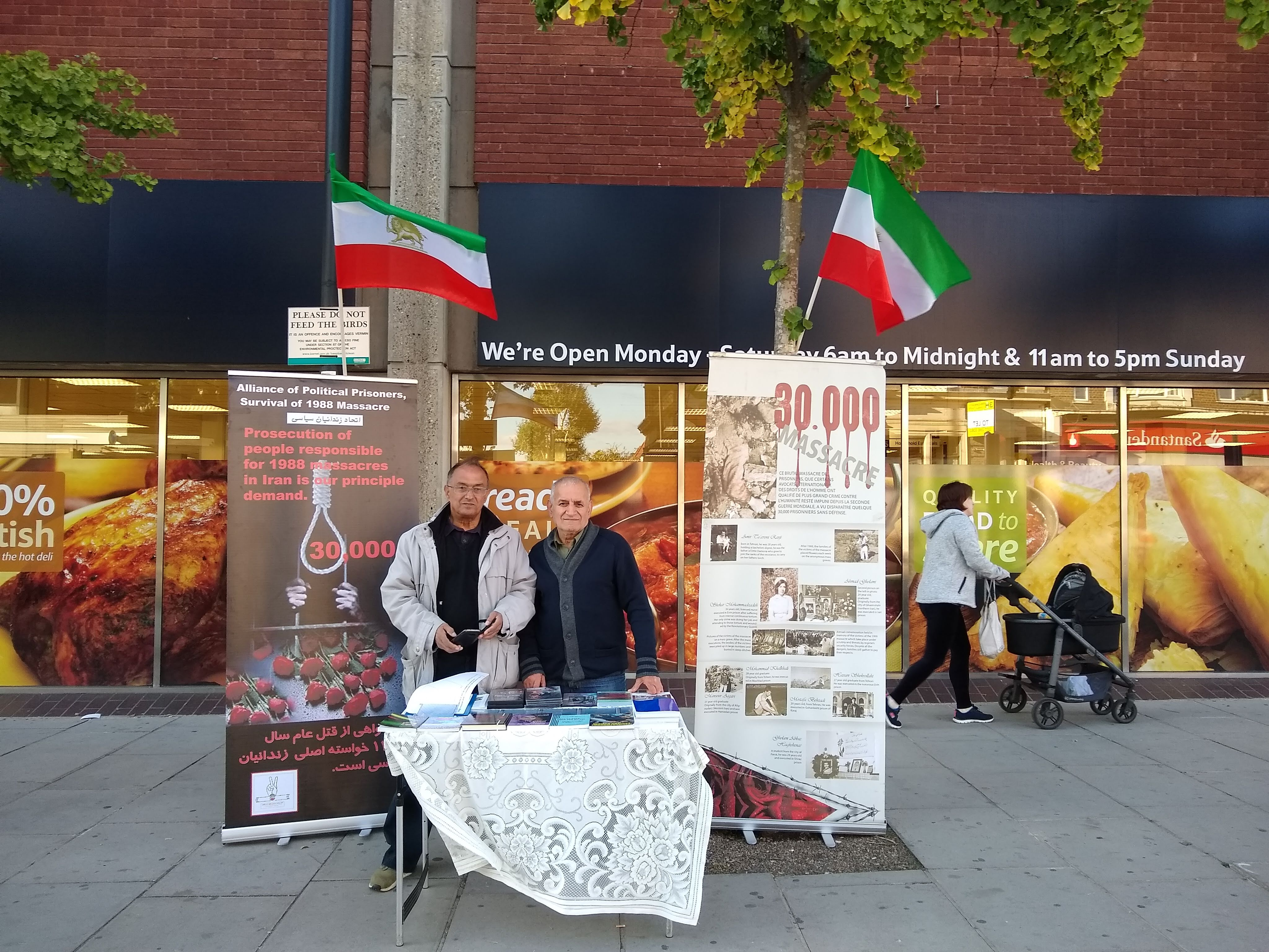 Iran 1988 massacre protest in Finchley, London, Sept. 2018.